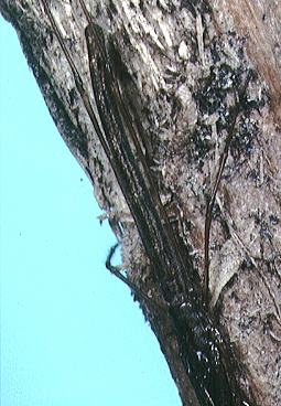 male Tetragnatha chauliodus from Okinawa.